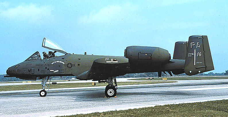 103d Tactical Air Support Squadron OA-10A Thunderbolt II arriving in 1988 to the 111th Fighter Group